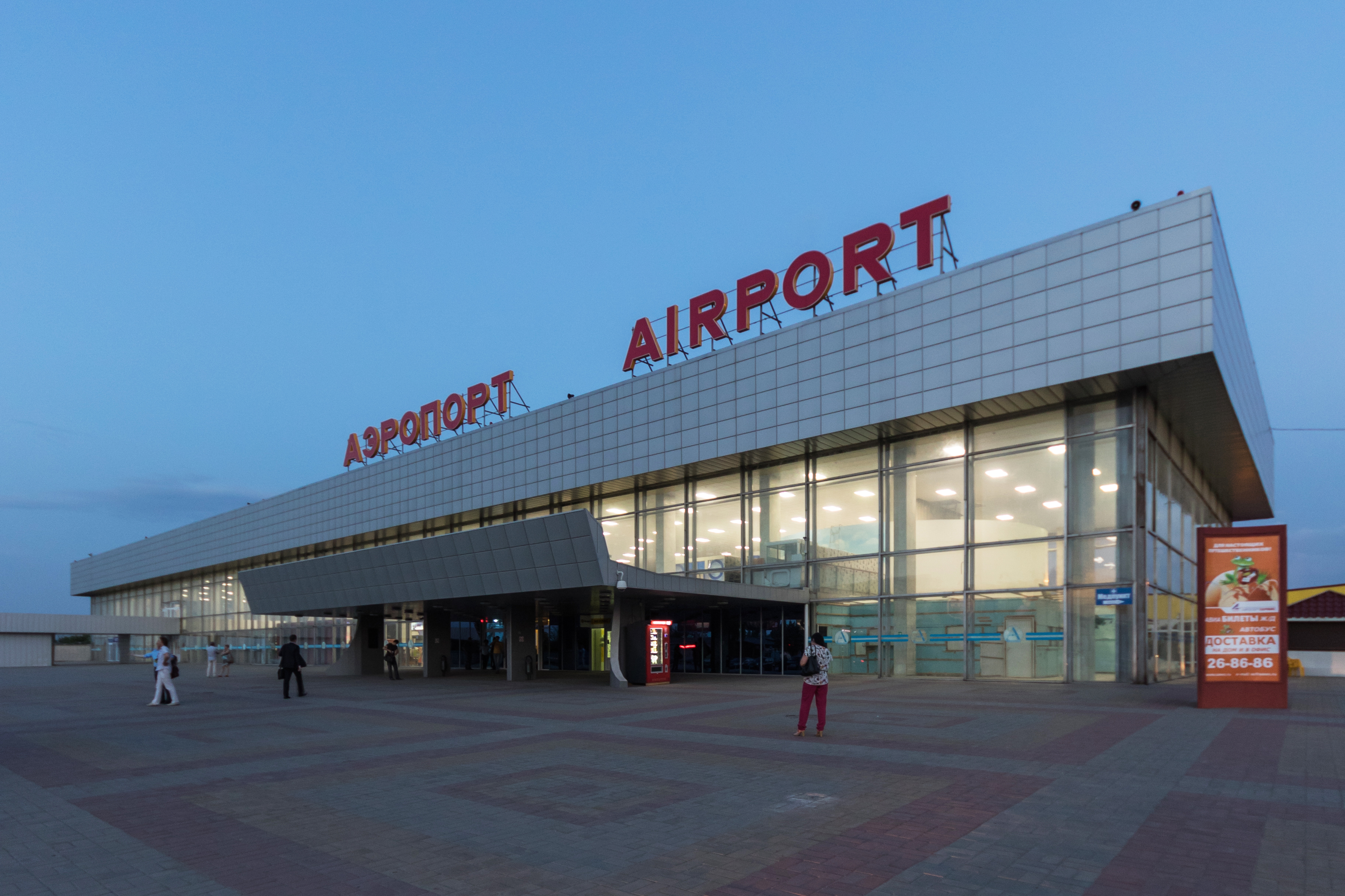 Gumrak Airport in Volgograd, Russia